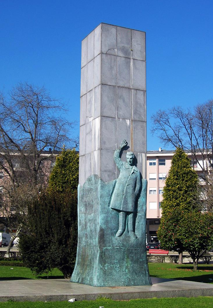 Francisco Sá Carneiro (Politician) 1990 - Sculptor Gustavo Bastos - Oporto - Portugal